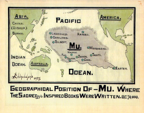 Map from "Books of the Golden Age", 1927 - James Churchward